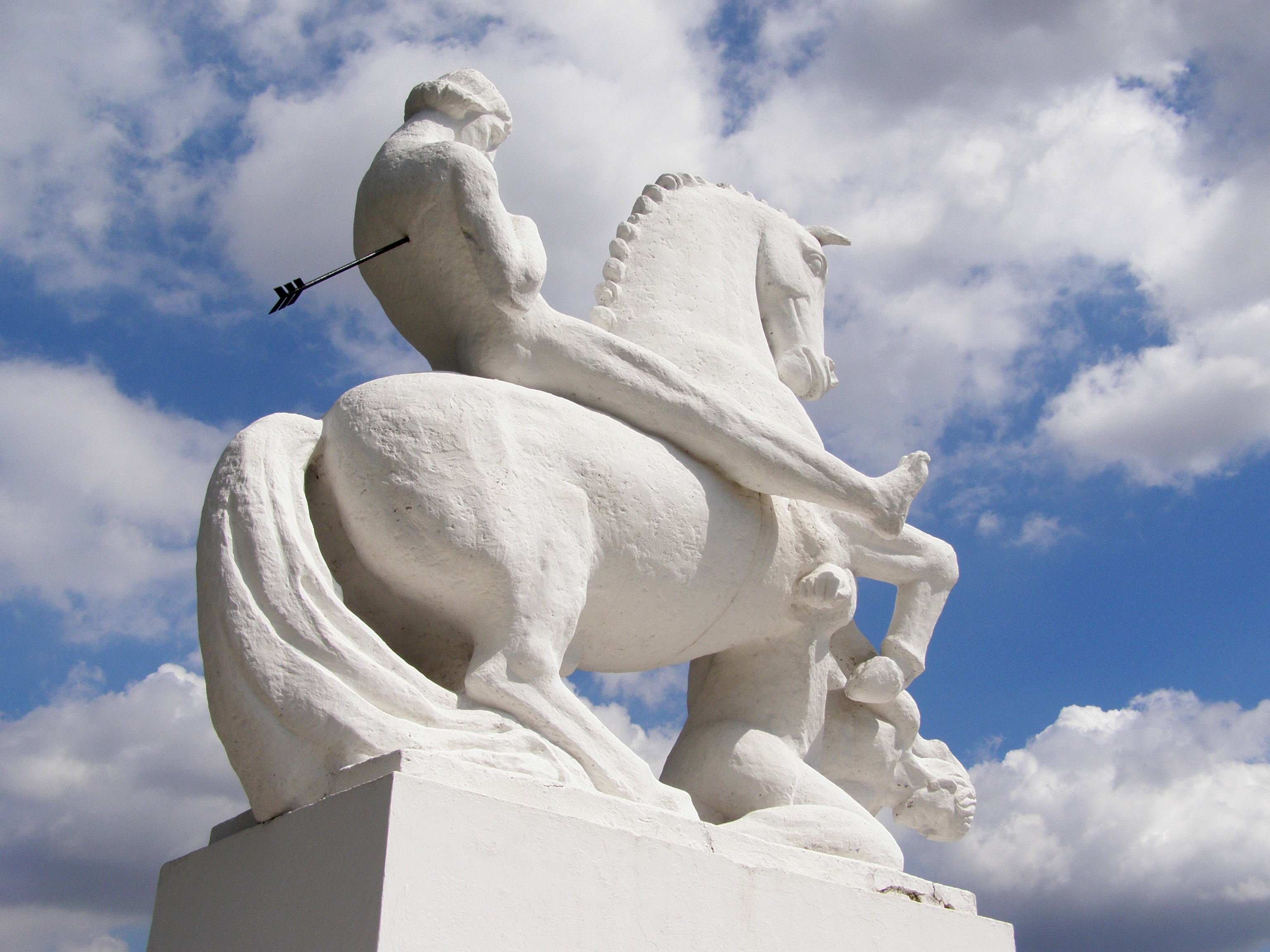 Statue of Leszek I the White in Marcinkowo Górne. Sculptor: Jakub Juszczyk, 1927